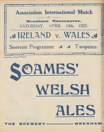 Wales v Ireland. Location: Wrexham.